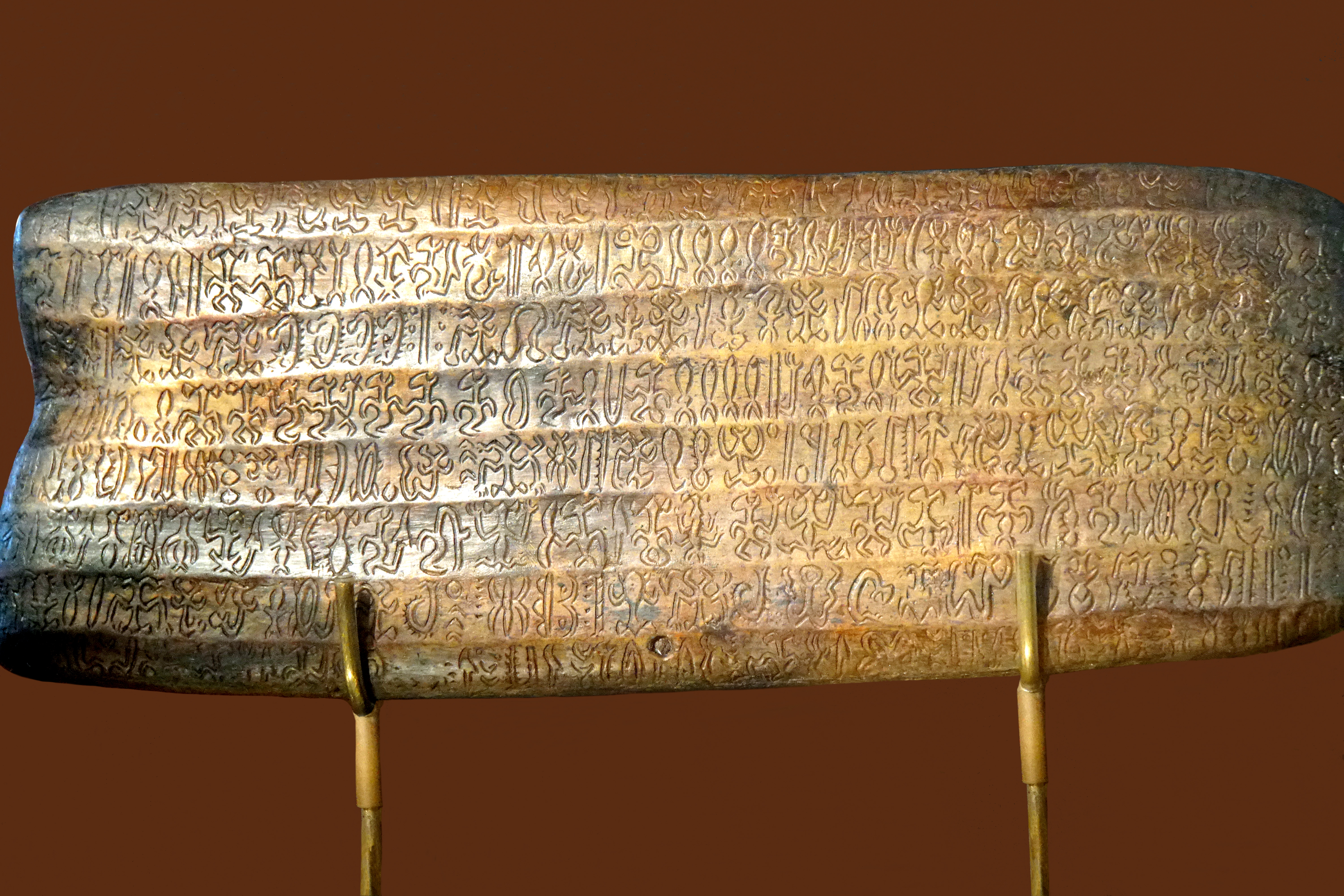 A reproduction of a rongorongo tablet, known as the 'Small Santiago' (text G), verso. Location unknown -- author info says 'Chile', so perhaps the National Museum of Natural History in Santiago.